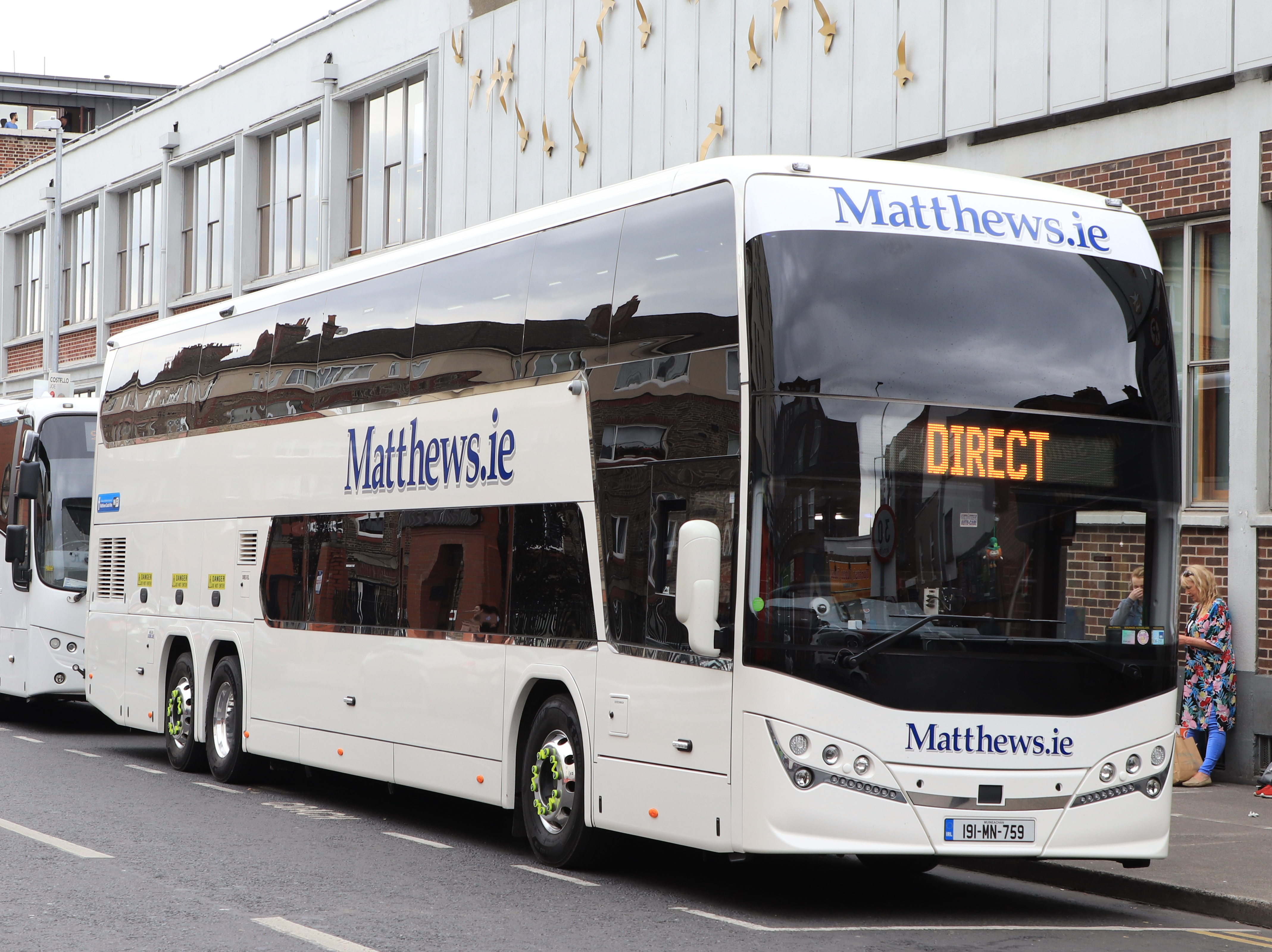 A Plaxton Panorama on a Volvo B11RLE chassis, owned by Matthews of County Monaghan, Ireland.